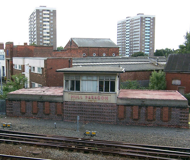 Hull Paragon Signal Box Photo taken from Park Street bridge.